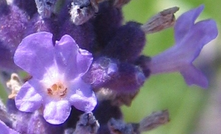 The Flower of Lavandula angustifolia